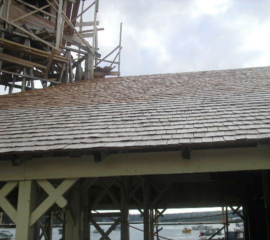 Roof shingles made from the native Alerce (Fitzroya cupressoides) in Dalcahue, Chile.